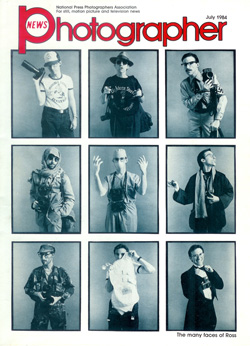 J. Ross Baughman shows the clothing he wore while working on a variety of investigative reports, including the Ku Klux Klan, street gangs in Los Angeles, Nazis in America, Palestinian commandos, plastic surgeons, compulsive teenage gamblers, Rhodesian cavalry troopers, New York drug dealers, and a Black-Tie opening on Broadway.